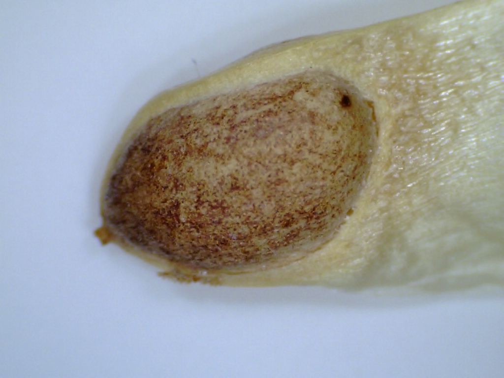 Pinus nigra seed